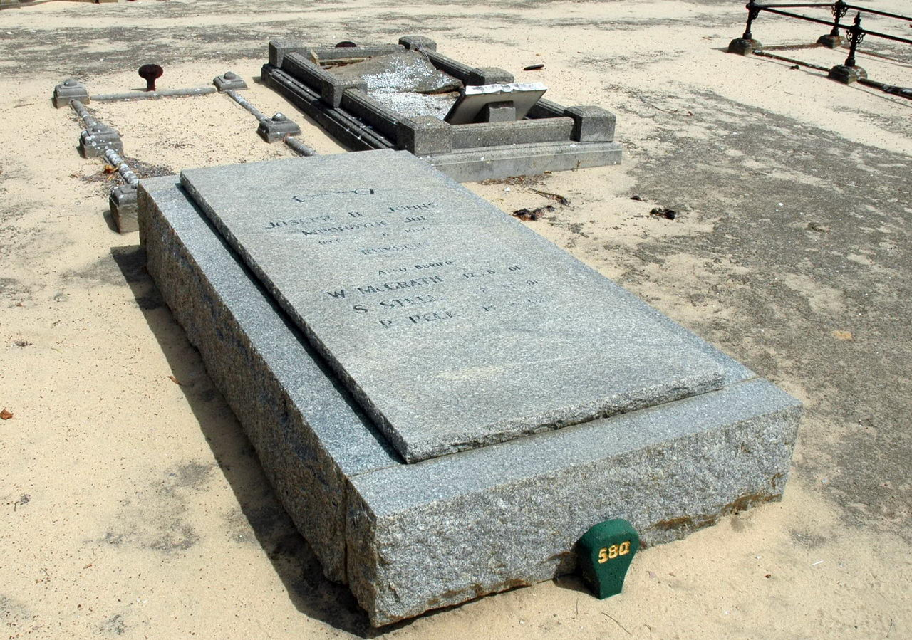 Moondyne Joe gravesite, Fremantle Cemetery, Western Australia.